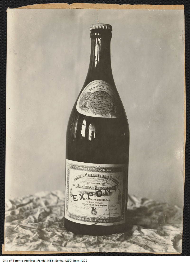 Item is a product photograph of a bottle of beer.